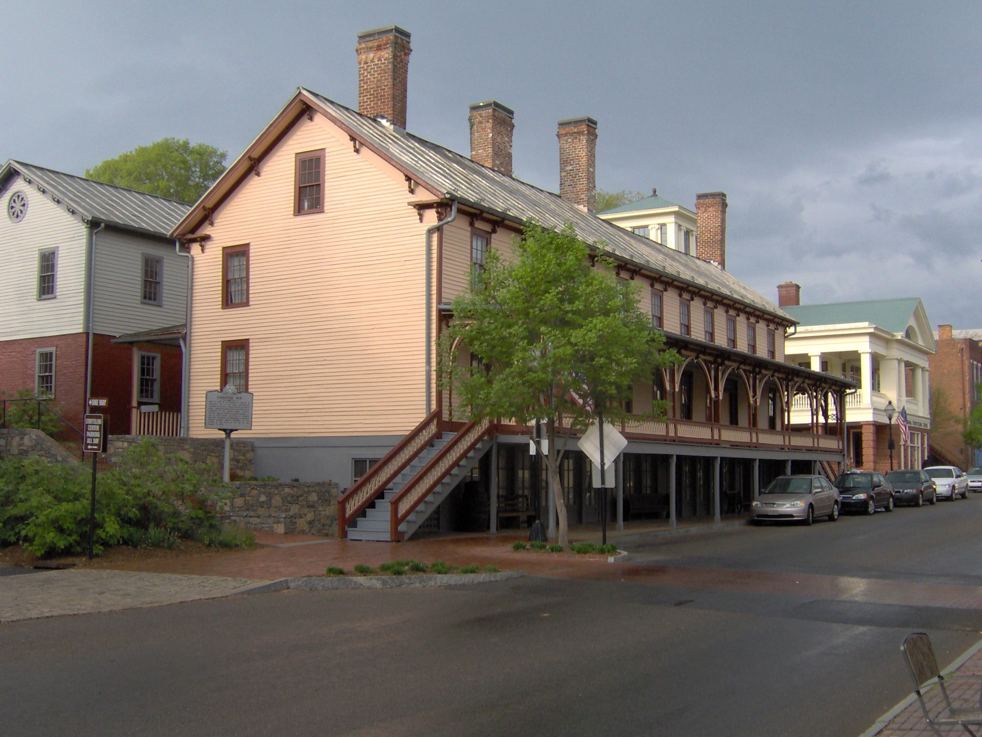 Chester Inn in Jonesborough, Tennessee, in the southeastern United States. The inn was built in 1797 and operated until the 1930s. The structure now part of the Jonesborough Historic District.